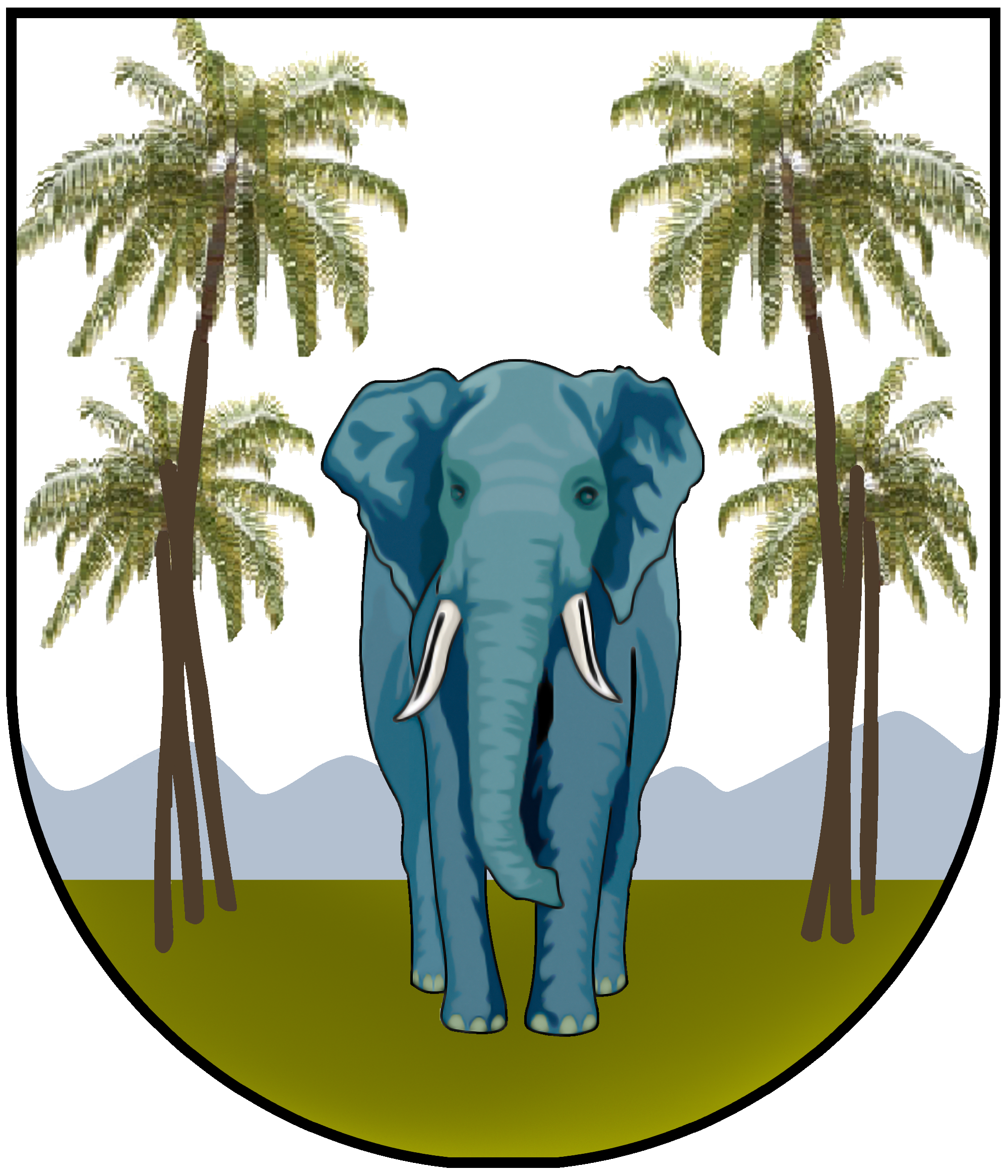 Recreation of the coat of arms of the Portuguese colony of Ceylon, based on description given by "Silva, de and Beumer, Illustrations and views of Dutch Ceylon 1602-1796", 1988. Emerson